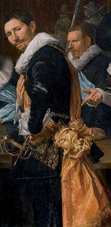 Portrait of Captain Andries van Hoorn, detail of Frans Hals' schutterstuk The Officers of the St Adrian Militia Company in 1633